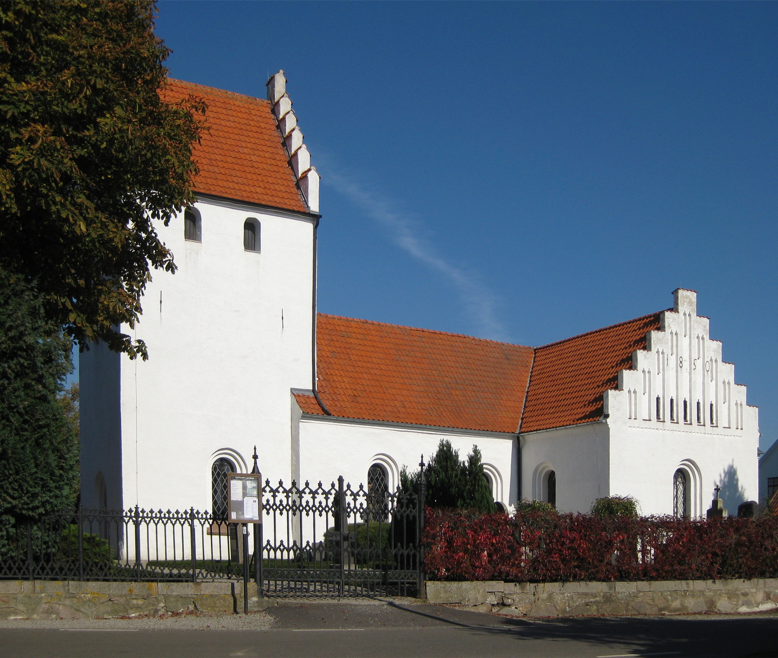 Tottarp church, Scania, Sweden